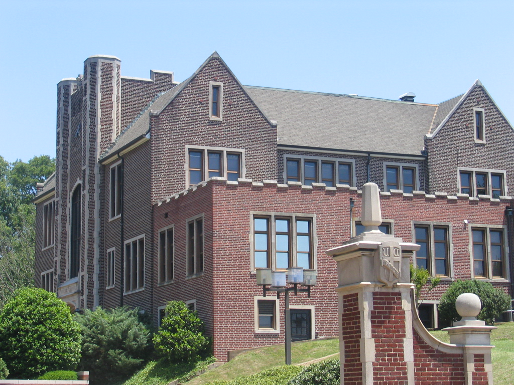 A photo of Founders Hall, the administrative building at UTC, with the old University of Chattanooga seal in the foreground. This photo was taken by me. For use in the University of Tennessee at Chattanooga and UT system articles.